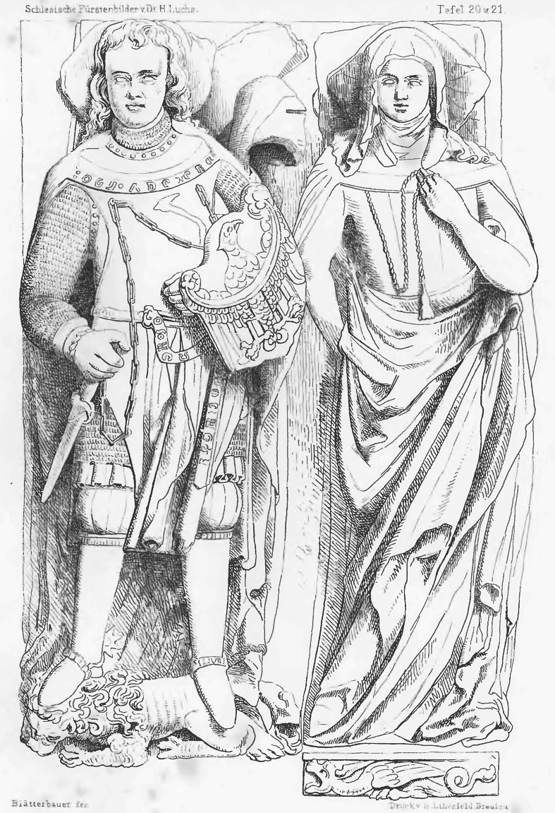 Tomb of duke Bolko II of Münsterberg and his wife Jutta